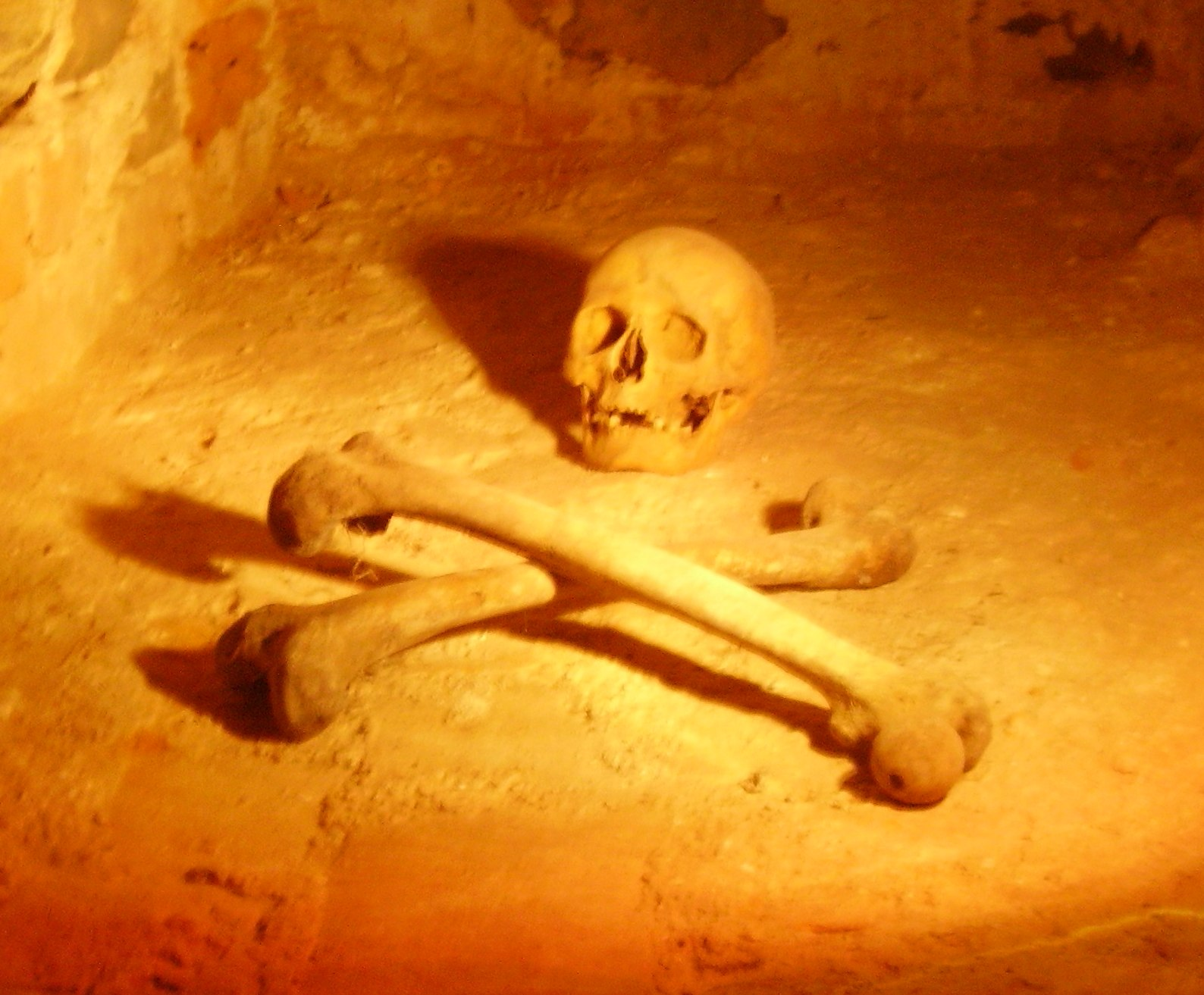 Buried bones in exposition under the church of Liškiava